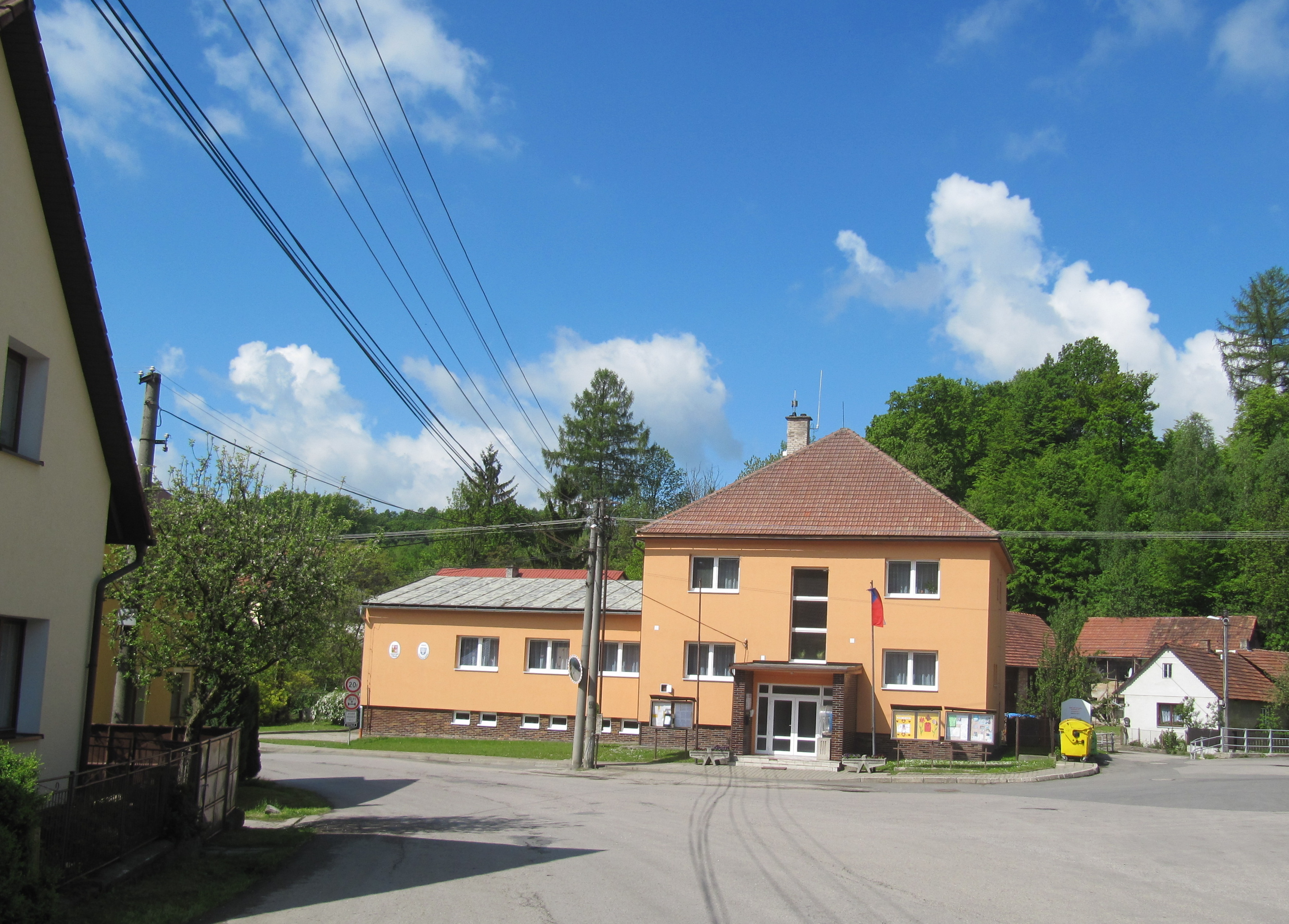 Nedašova Lhota, Zlín District, Czech Republic.